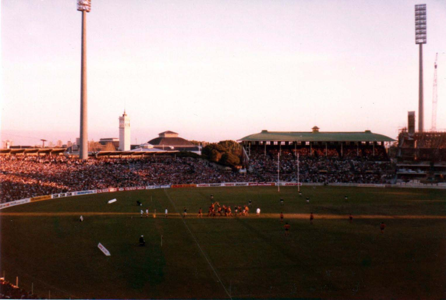 An Ireland line-out in the 2nd test against Australia, Sydney, 1979